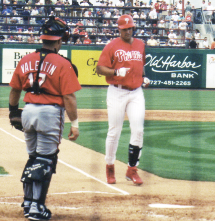 Pat Burrel about to step on home plate after a three run home run. Spring Training 2005. 21:33, 10 June 2005 . . Googie man . . 746×767 (918 KB)